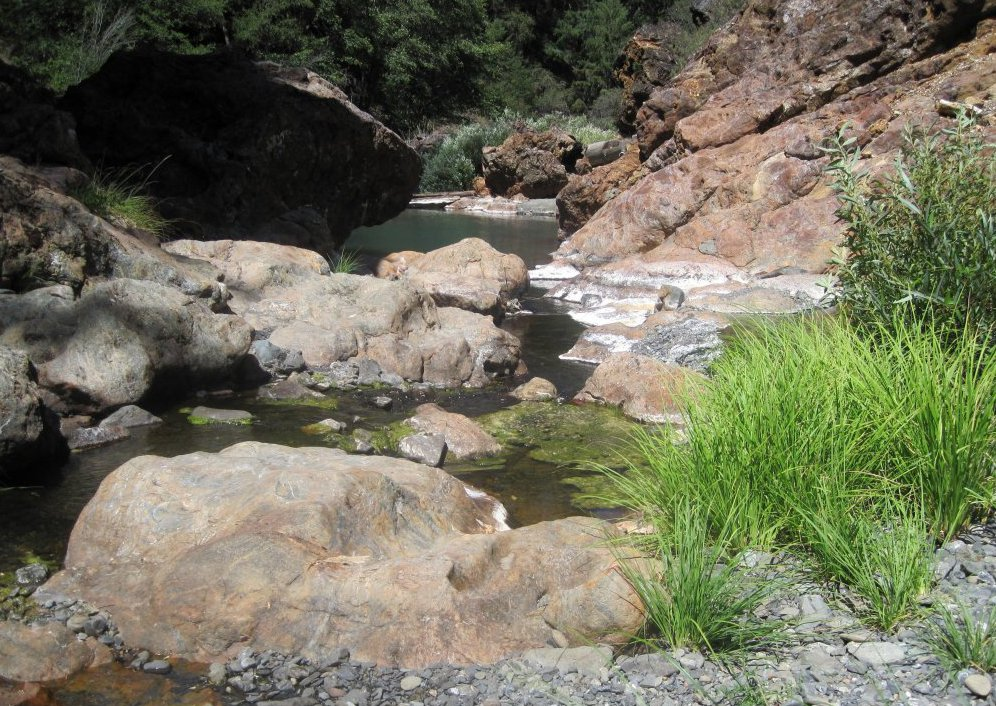 Crabtree Hot Springs, Mendocino National Forest, Lake County, California